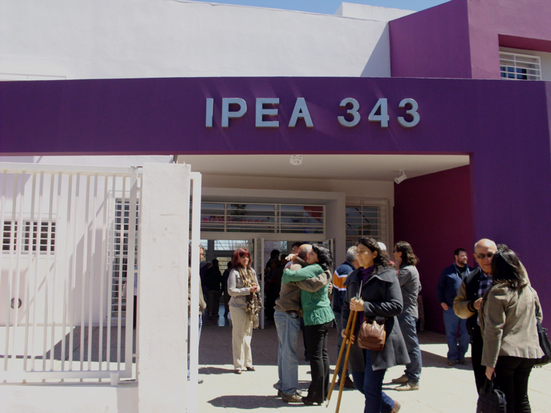 Ipea 343 High School. Los Cocos, Córdoba Province, Argentina.